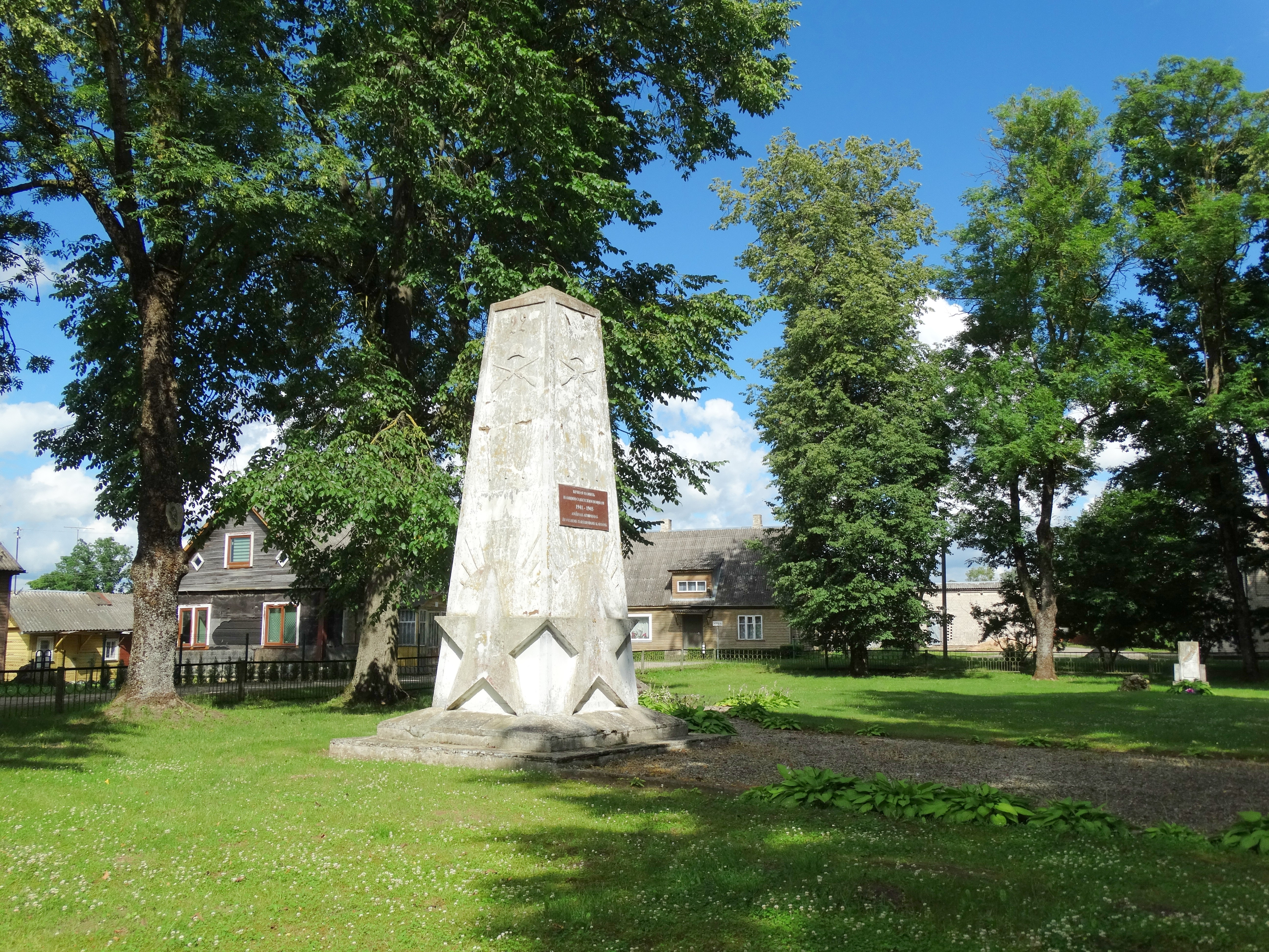 Monument to Soviet soldiers, Pumpėnai, Pasvalys District, Lithuania